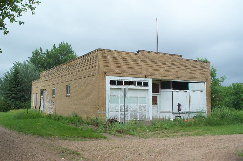 Conway, North Dakota. From .